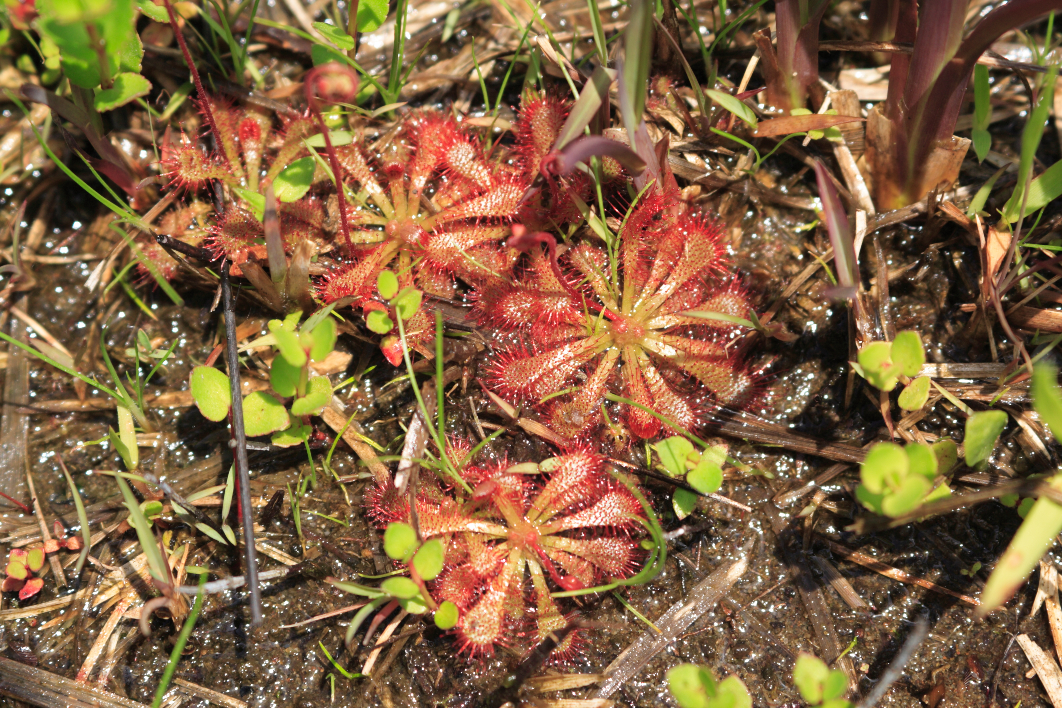 Habitat of Drosera spatulata in Mutsuzawa,Chiba,Japan.